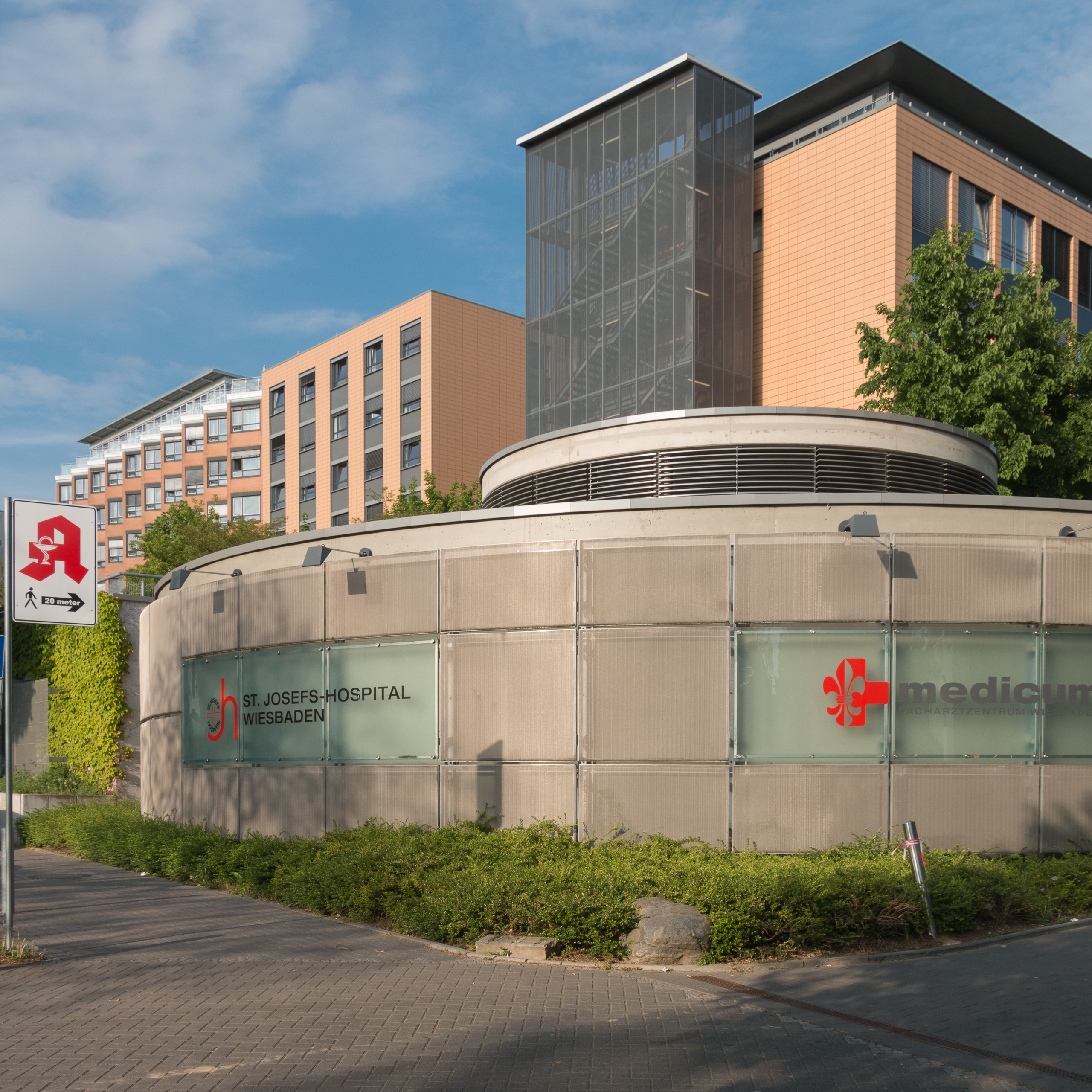 The St. Josefs-Hospital Wiesbaden